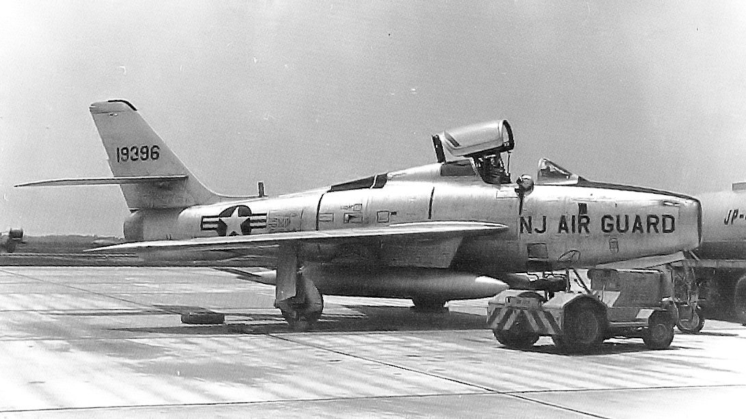 141st Tactical Fighter Squadron General Motors F-84F-25-GK Thunderstreak 51-9396. Aircraft retired in 1965. Now displayed at Holloman AFB, NM